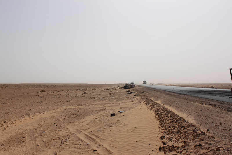 The road from Brega, a rebel-held oil city, to Ras Lanuf, another major oil port on the front lines, cuts through hundreds of kilometres of mostly empty desert.